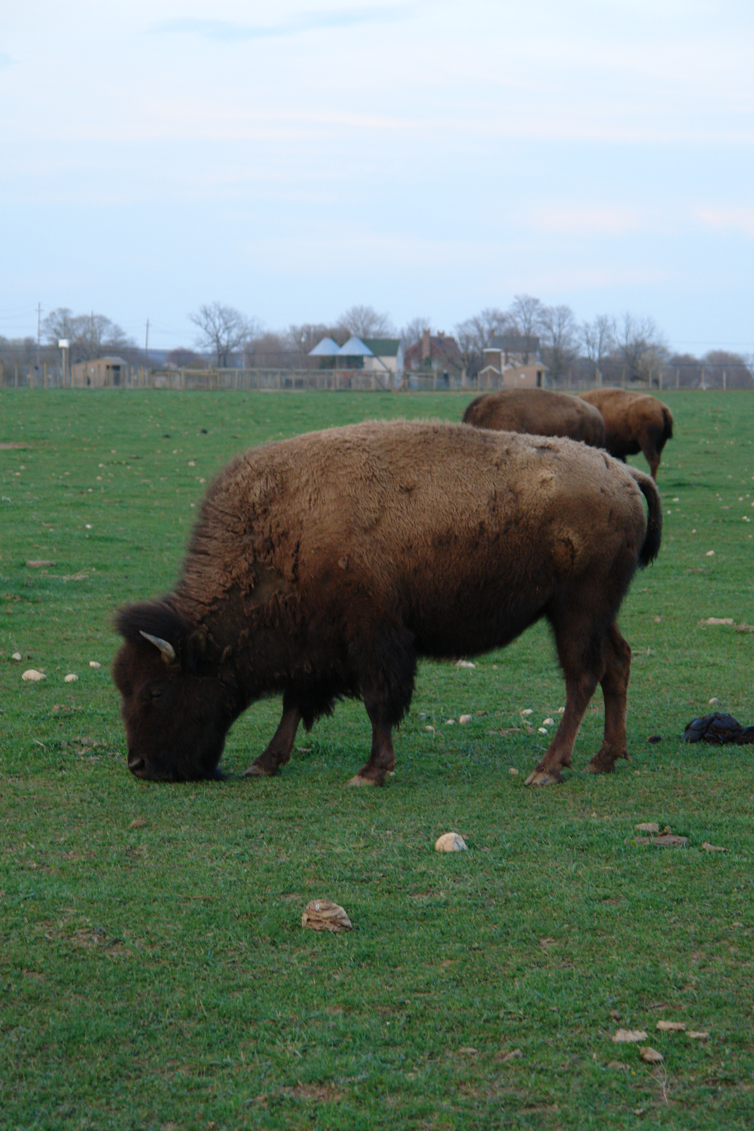 A bison on a wildlife refuge in Riverhead, New York.